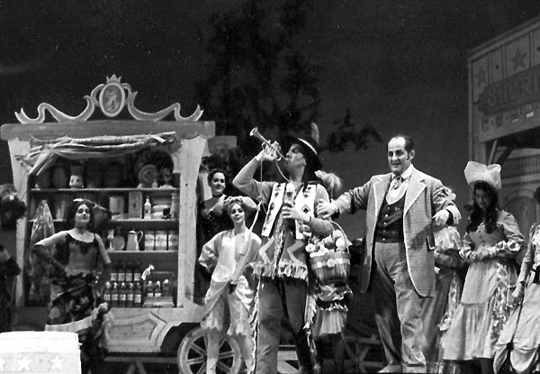 Andrew Foldi as "Dr. Dulcamara," an itinerant quack and purveyor of "elixirs" and other tonics, gestures to "Cochise" (Bruce Cooper), his sly trumpet playing assistant, to call together the townspeople as he sings his Act 1 (Scene 2) aria "Udite, udite, o rustici" ("Hear me, hear me, oh peasants") in a performance of the Cincinnati Opera's| noted 1968 "Wild West" production of L'Elisir d'Amore in which the 1832 Gaetano Donizetti opera's setting was moved from a village in the Basque country to 1870s Texas. (This particular performance of the CO production took place in Philadelphia.) Photograph taken for and rights assigned to uploader. Summary Andrew Foldi as "Dr. Dulcamara," an itinerant quack and purveyor of "elixirs" and other tonics, gestures to "Cochise" (Bruce Cooper), his sly trumpet playing assistant, to call together the townspeople as he sings his Act 1 (Scene 2) aria "Udite, udite, o rustici" ("Hear me, hear me, oh peasants") in a performance of the Cincinnati Opera's noted 1968 "Wild West" production of L'Elisir d'Amore in which the 1832 Gaetano Donizetti opera's setting was moved from a village in the Basque country to 1870s Texas. (This particular performance of the CO production took place in Philadelphia.) Photograph taken for and rights assigned to uploader.